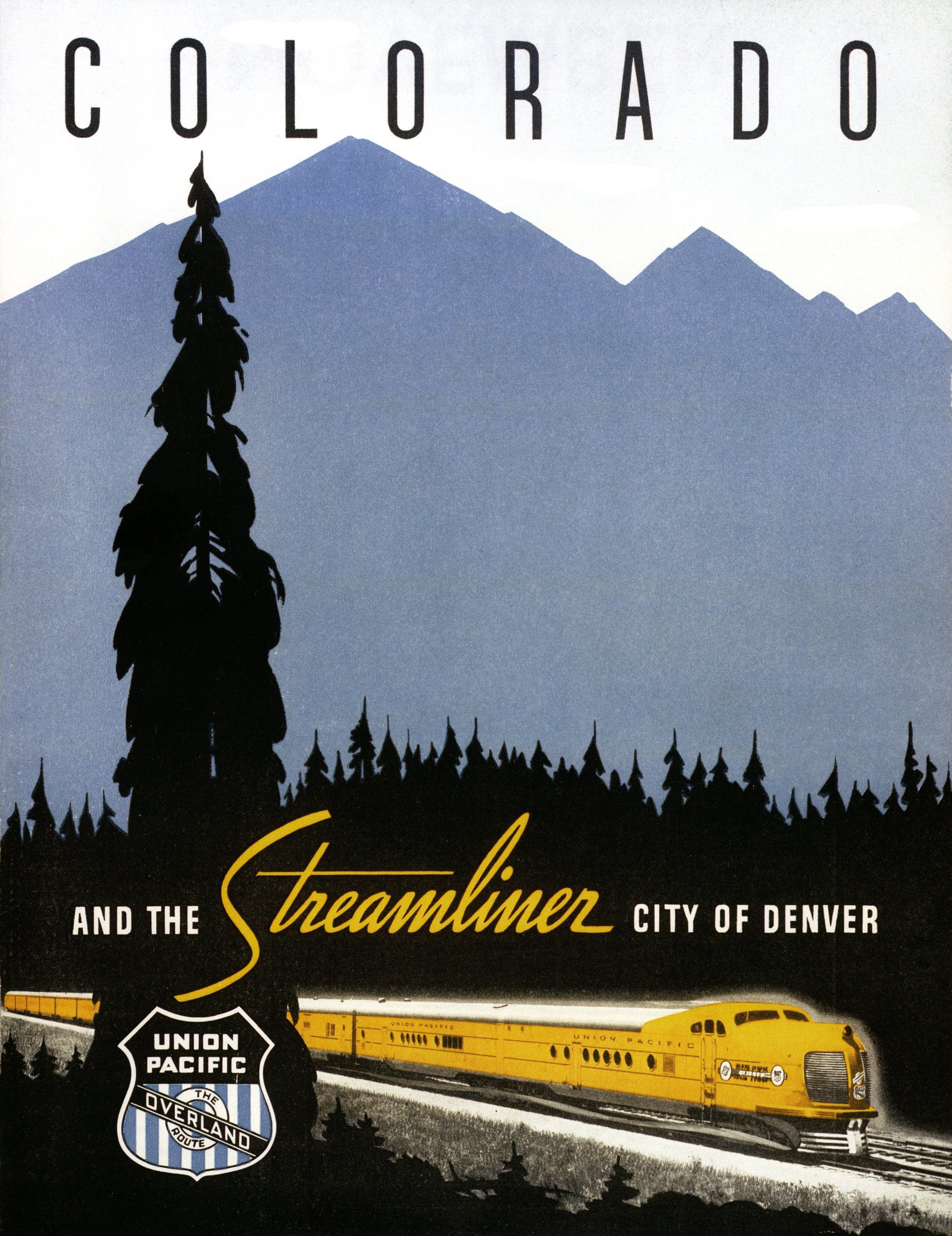 Chicago & North Western / Union Pacific promoting their "City of Denver" Streamliners